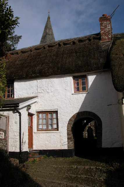 Church Cottage, West Worlington, Devon. The top of St Mary's church spire shows above the cottage roof. The archway through the cottage gives access to the church and churchyard.